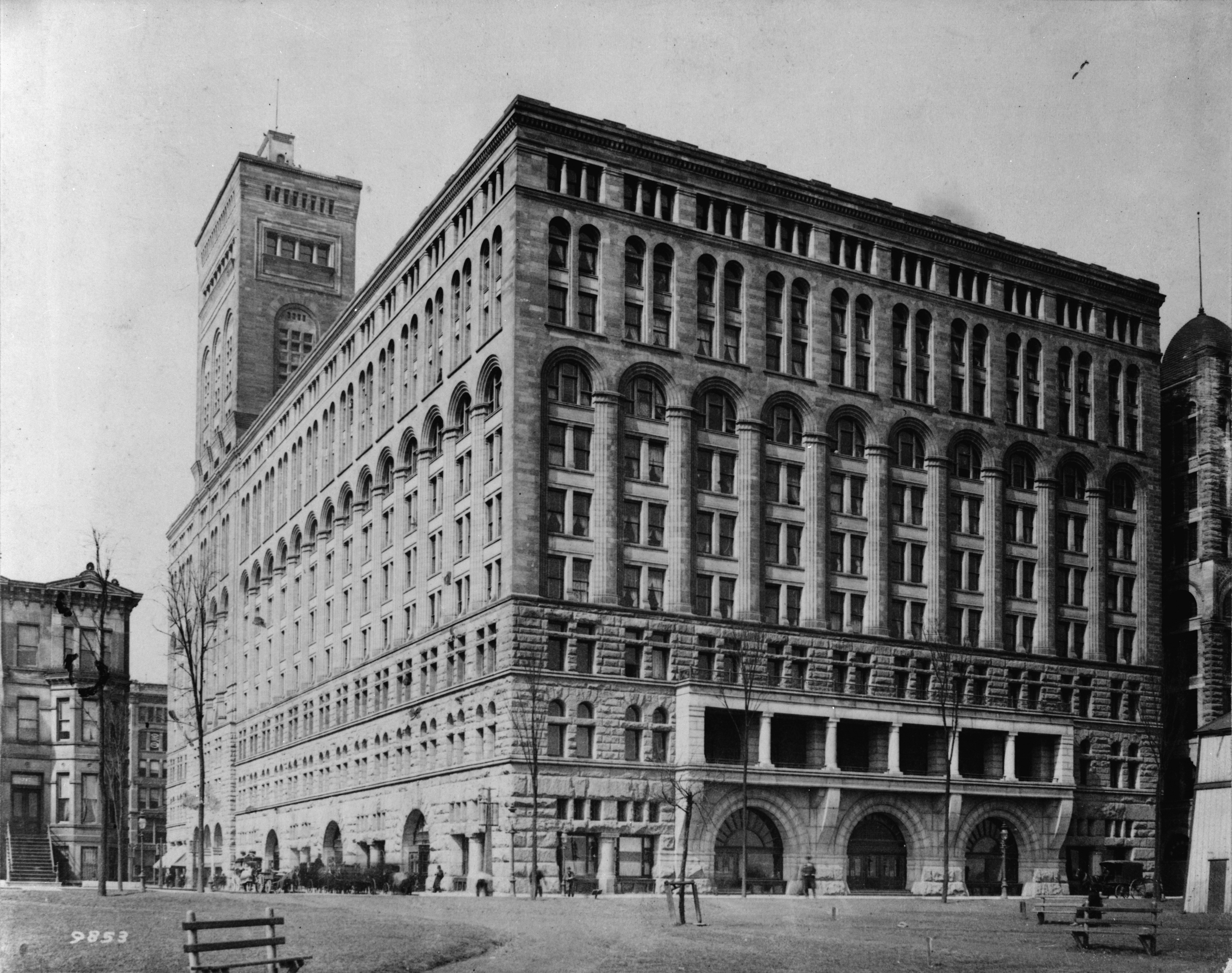 Auditorium Building, Chicago. Auditorium from Michigan Avenue.